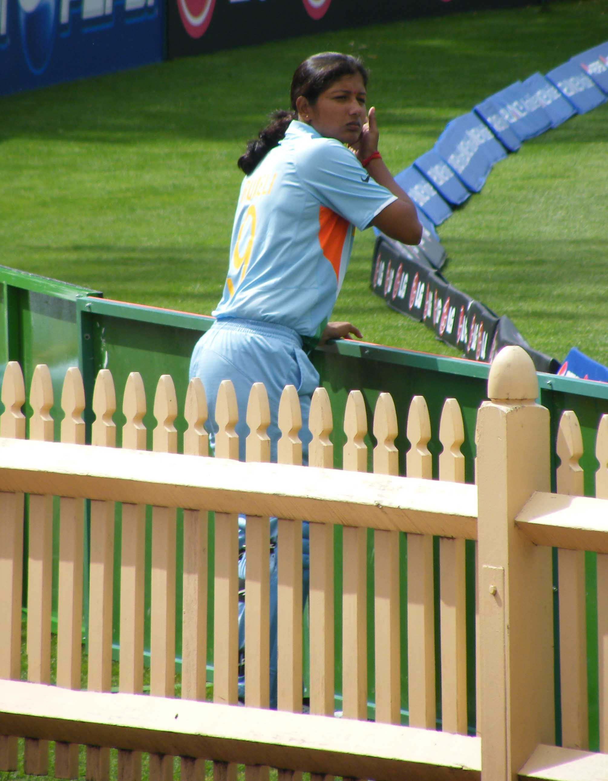 Rumeli Dhar of India - ICC Women's Cricket World Cup, Sydney, March 2009.